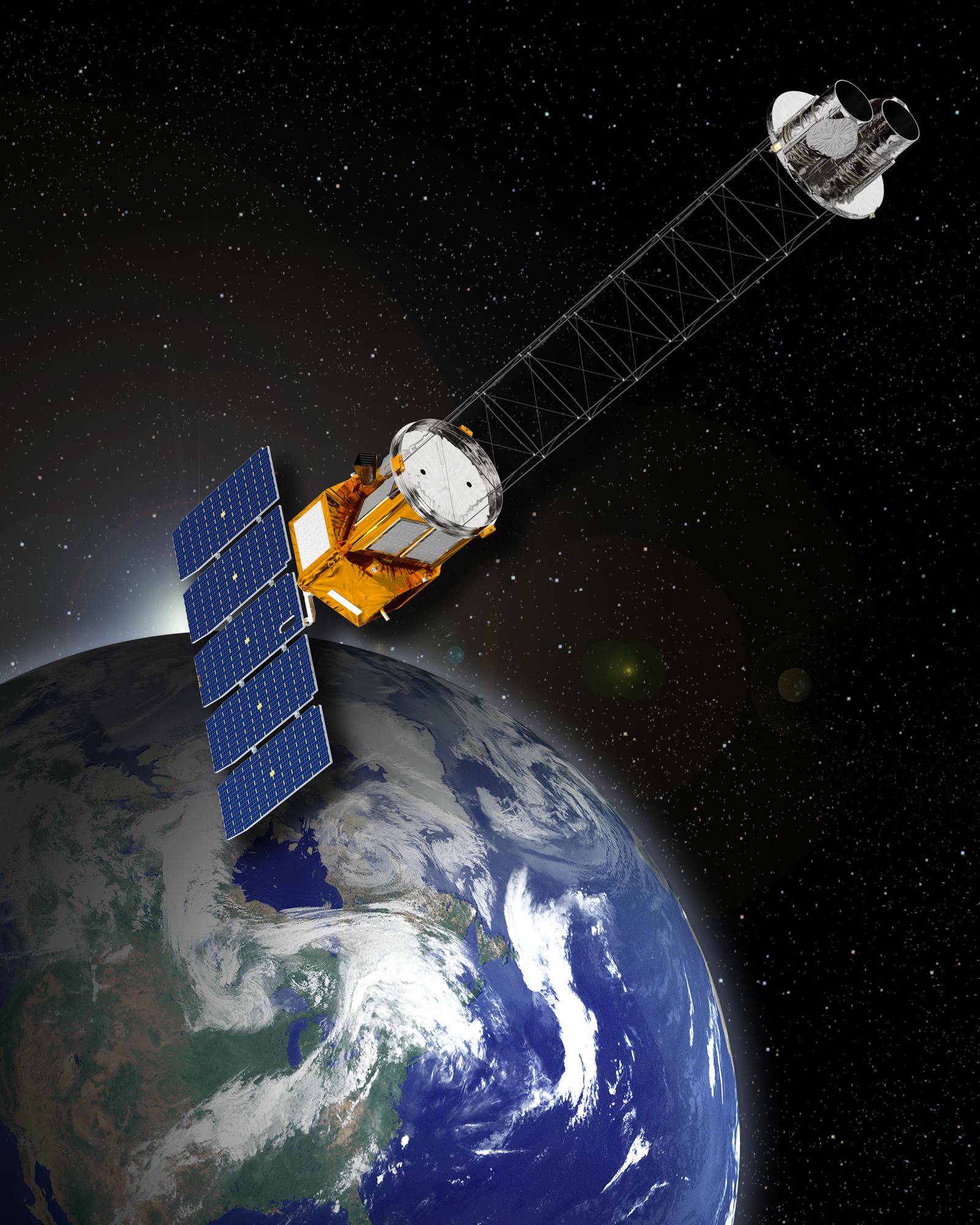 Poster of the GEMS space telescope